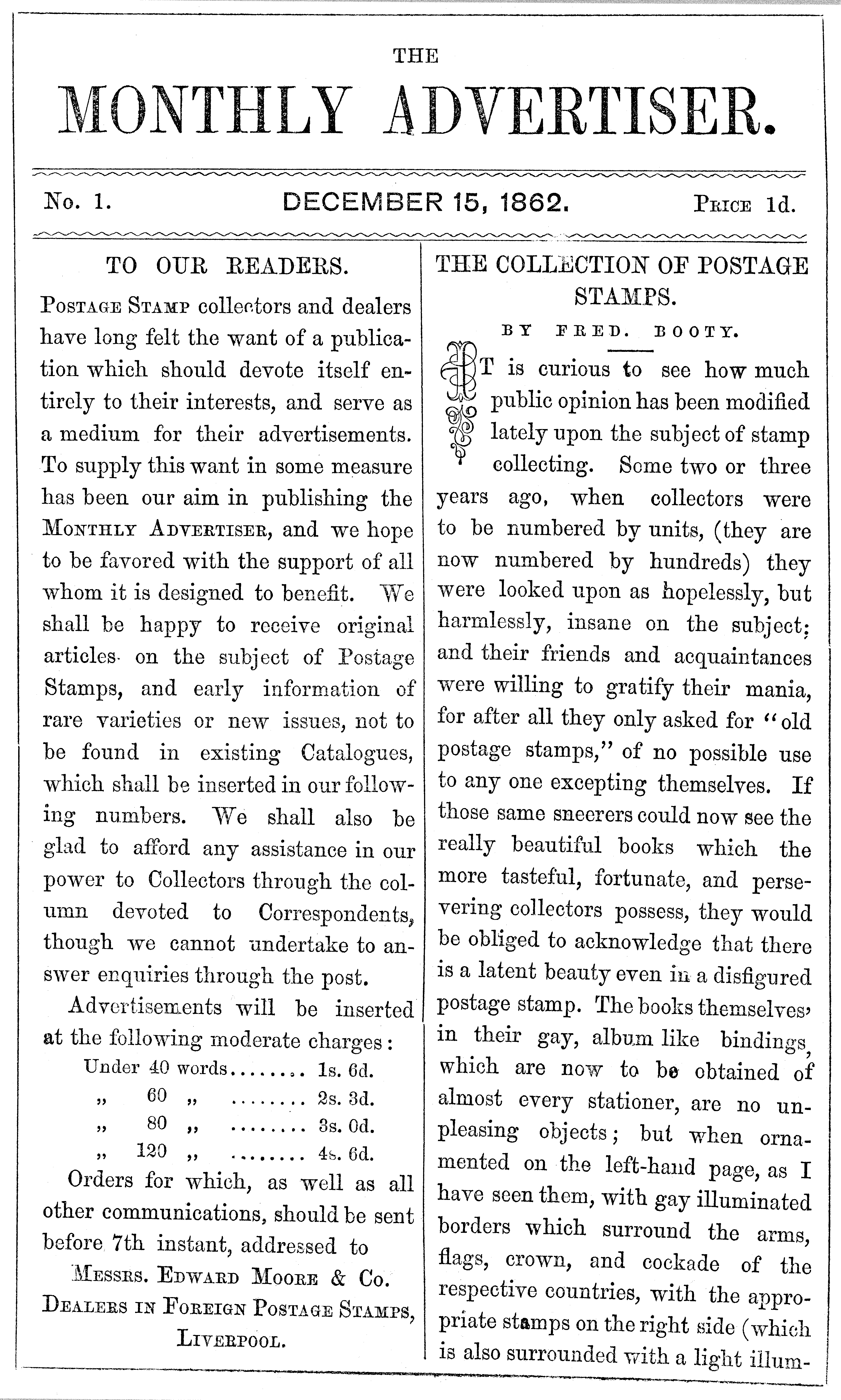 Issue No. 1 The Monthly Advertiser December 15, 1862, the world's first philatelic journal, from the third issue it was renamed Stamp Collectors' Review and Monthly Advertiser published by Edward Moore, Liverpool